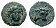 self made